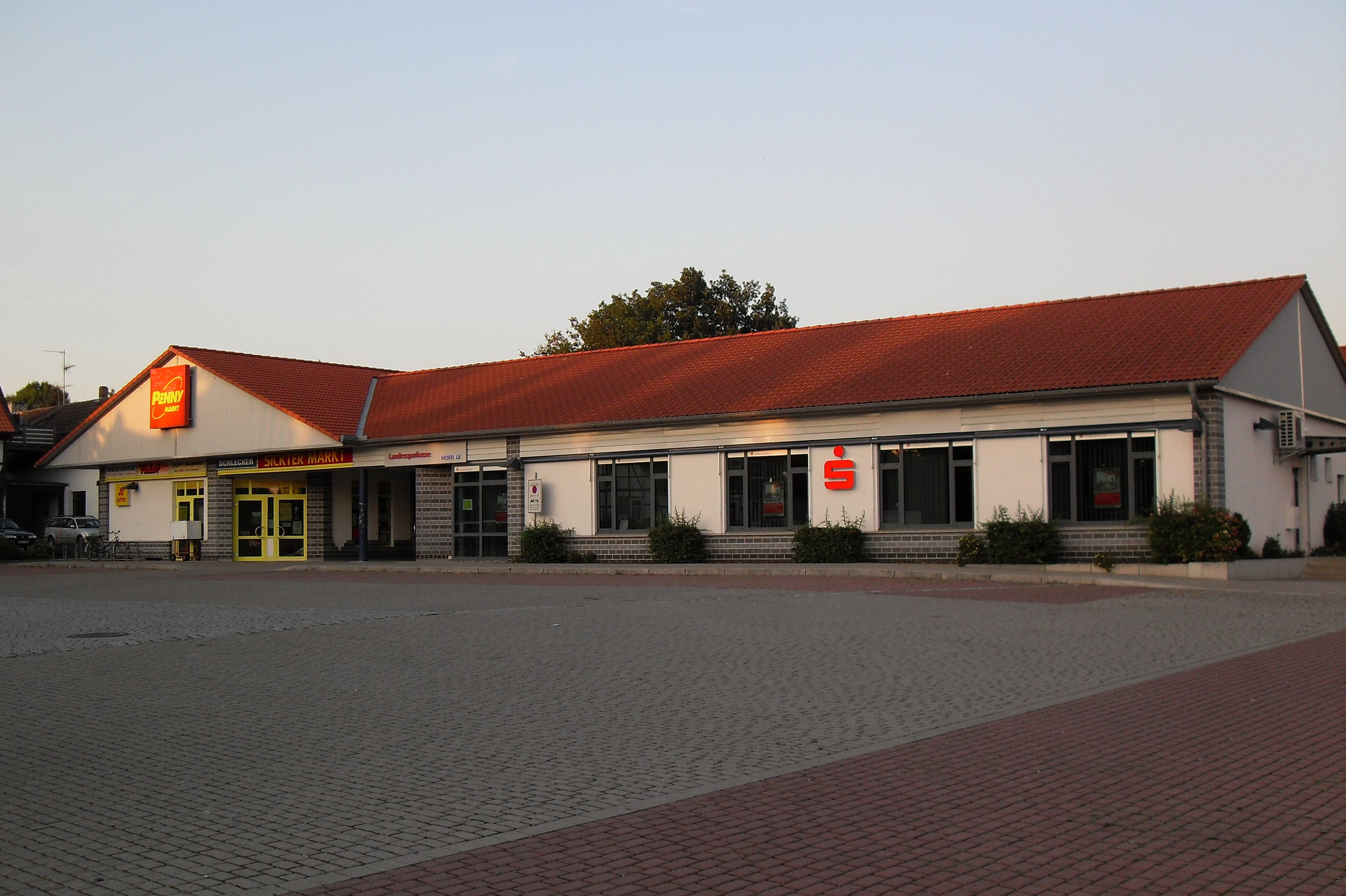 shopping center in Sckte, Lower Saxony, Germany